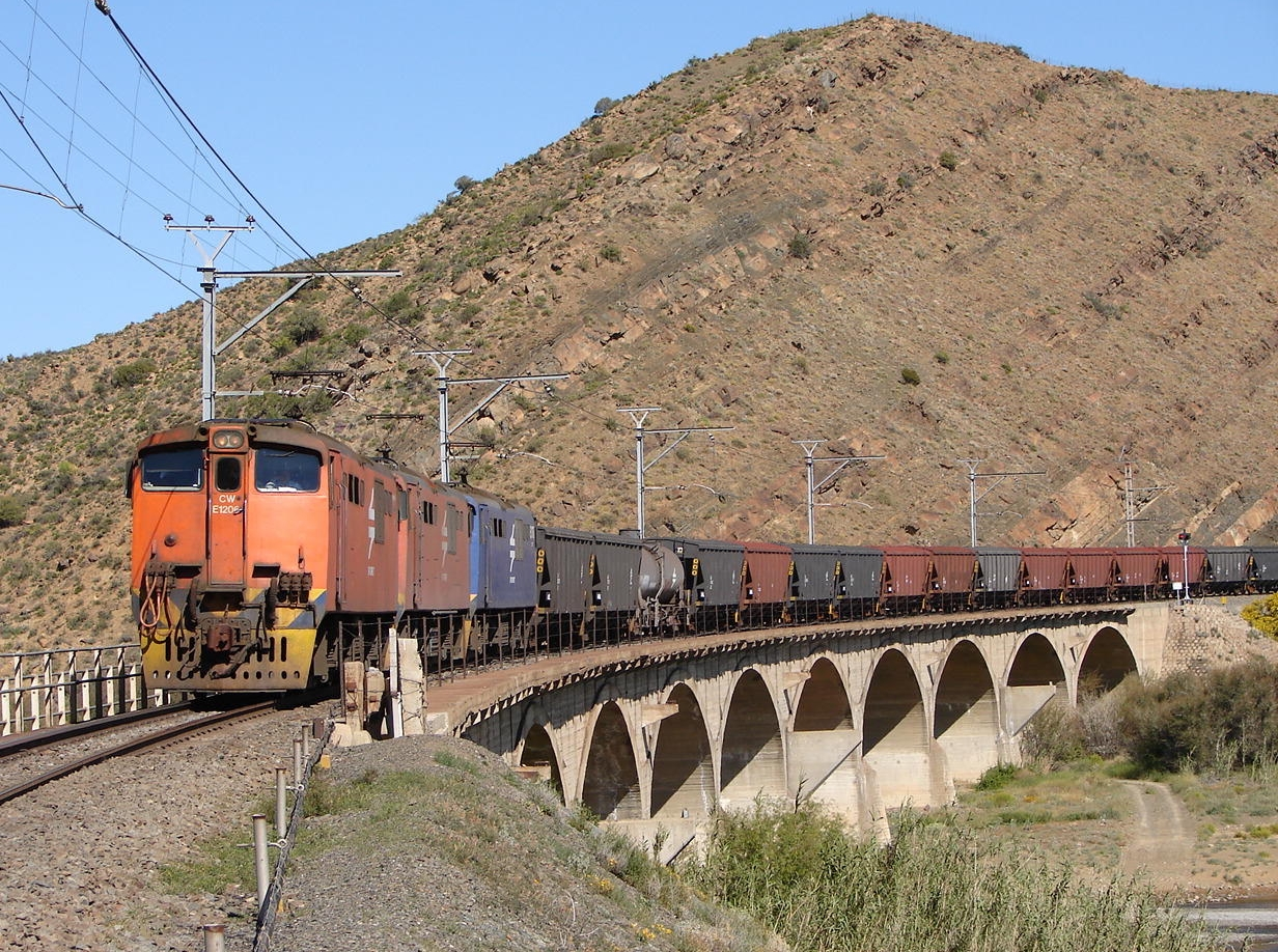 SAR Class 6E E1206 Location: Buffels River bridge, Laingsburg, Western Cape